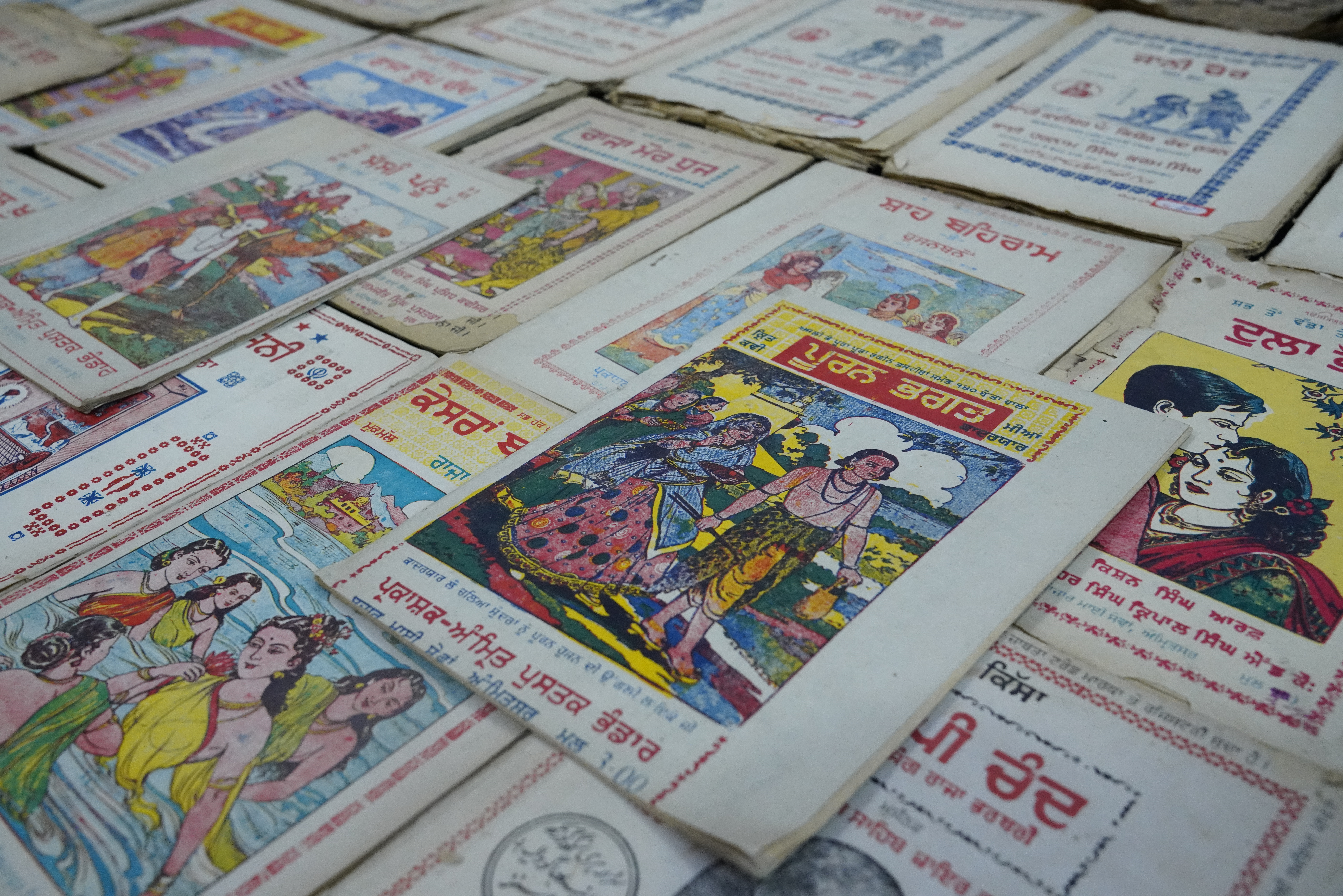 Punjabi Qisse; Puran Bhagat, Sassi Punnu, Raja Mor Dhuj, Kehar Singh Maut and others.